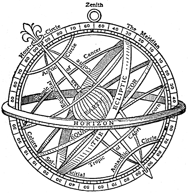 Armillary sphere